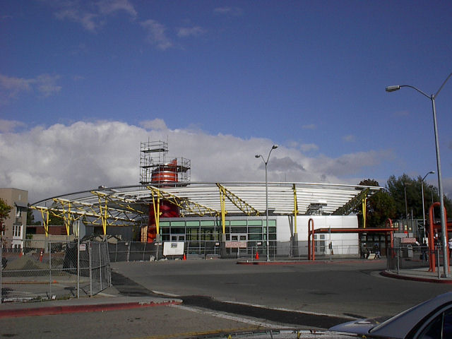 Construction of the new canopy at Richmond station in December 2006